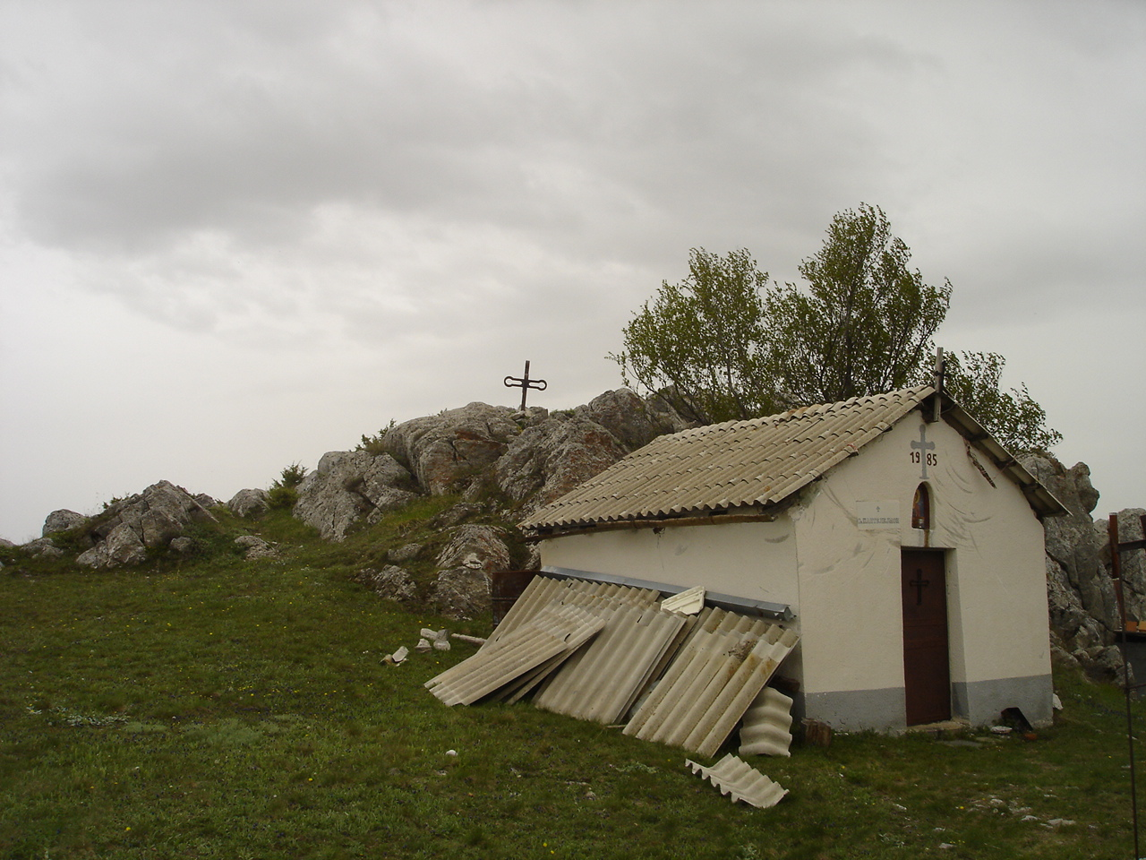 Monastery St. Panteleymon in Mariovo, Macedonia